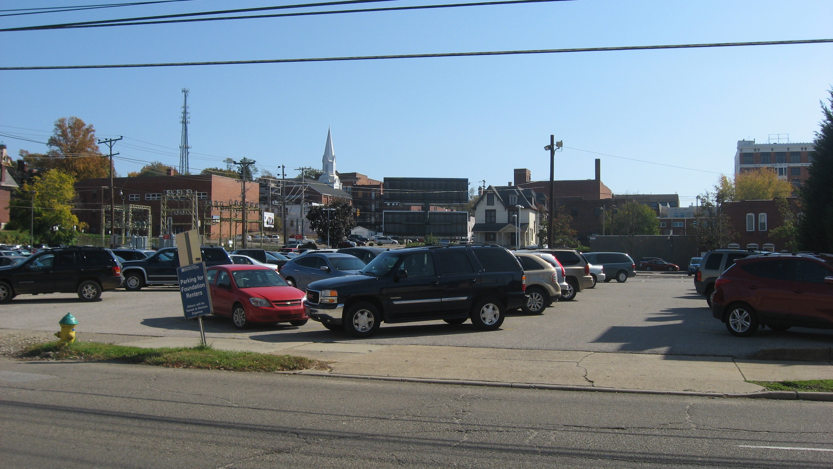 A parking lot at 710 Ann Street (West Virginia Route 618) in Parkersburg, West Virginia, United States. This was formerly the location of the Case House; built in 1901 and listed on the National Register of Historic Places in 1982, it has been demolished but has not yet been de-designated.